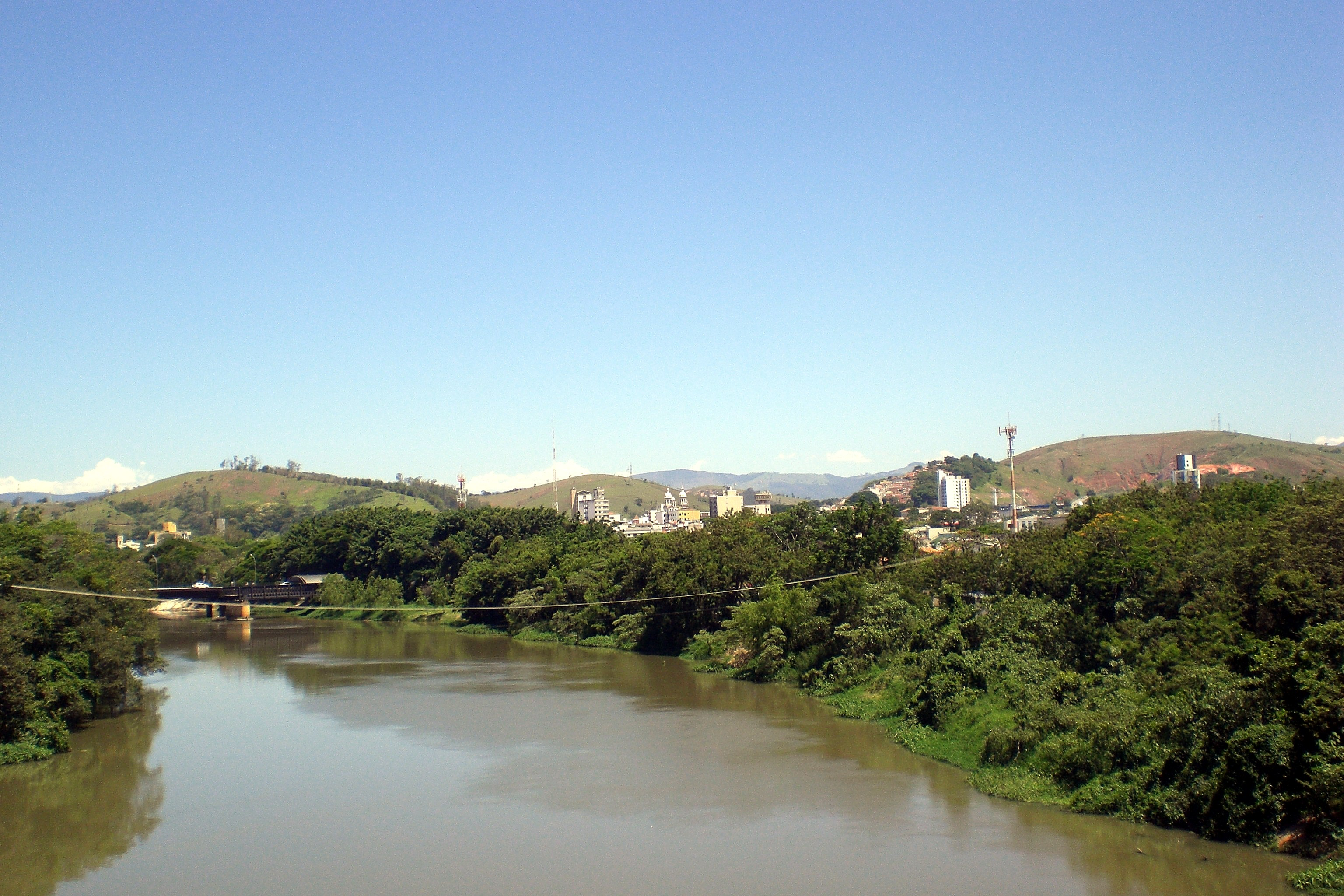 The river Rio Paraíba do Sul seen from a bridge in Guaratinguetá